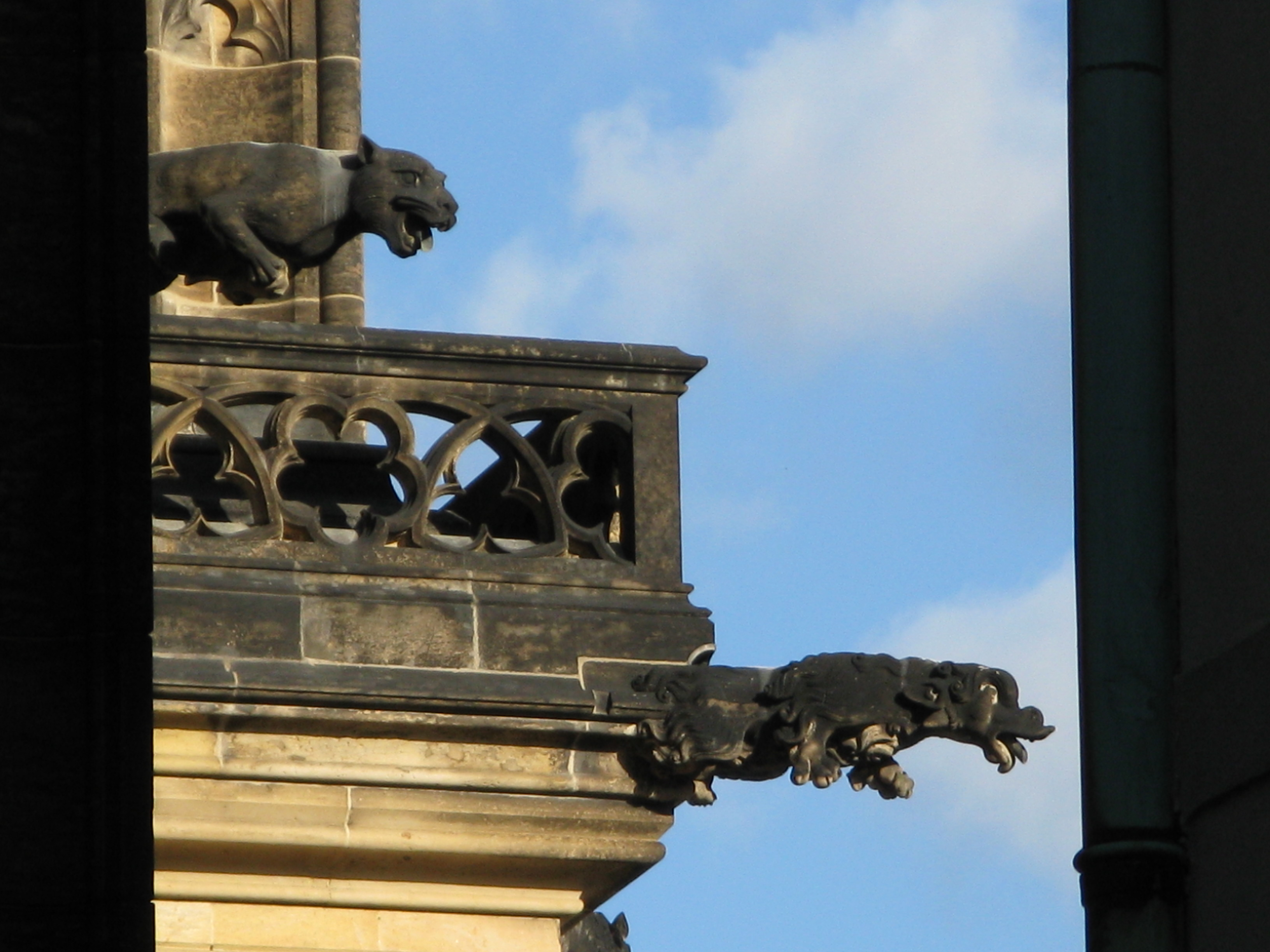 Gargoyles of St. Vitus Cathedral.